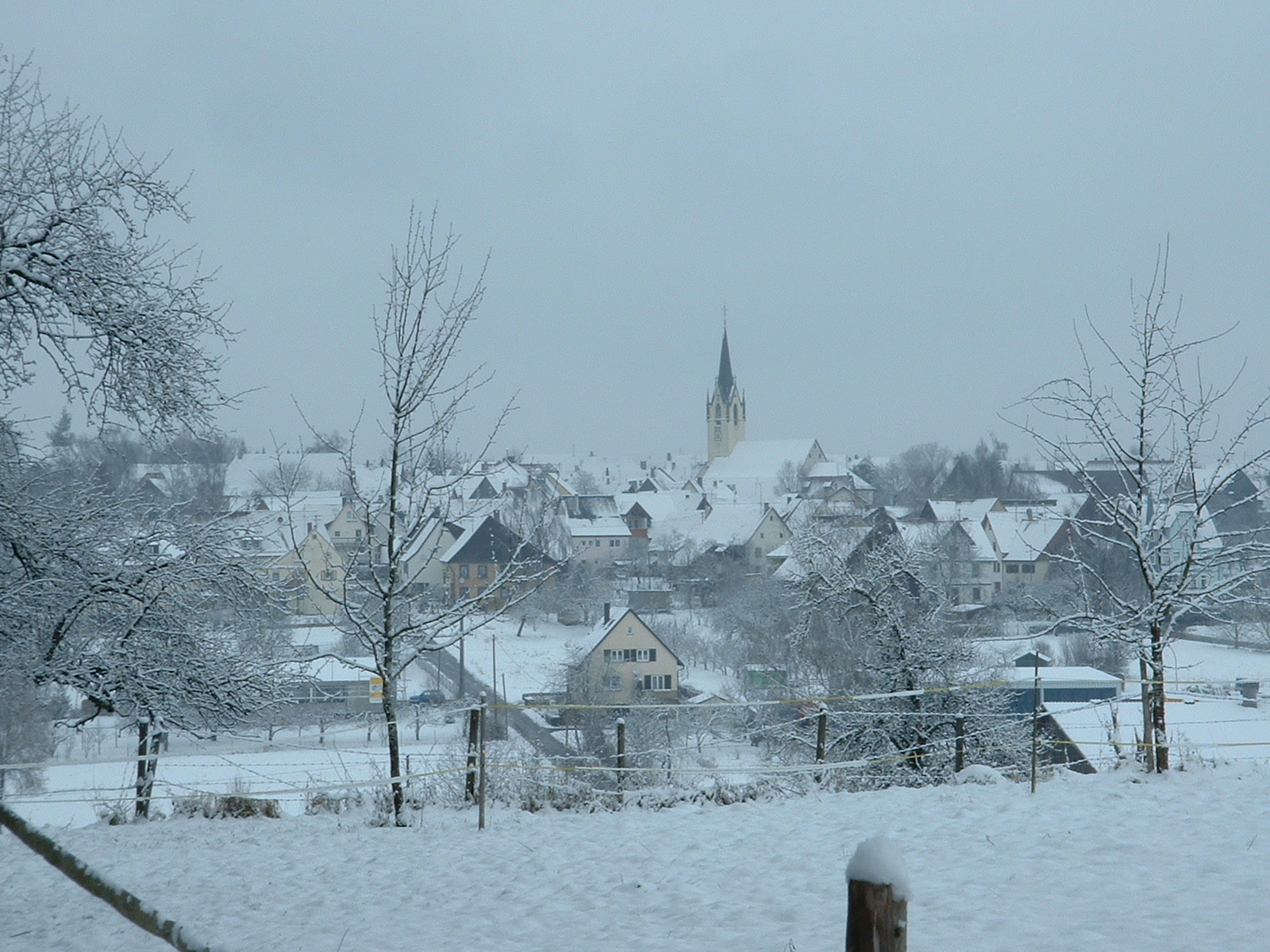 Horb-Betra (part of Horb am Neckar), Baden-Württemberg, Germany. Photograph taken 27th December 2005 by Stephen Lea